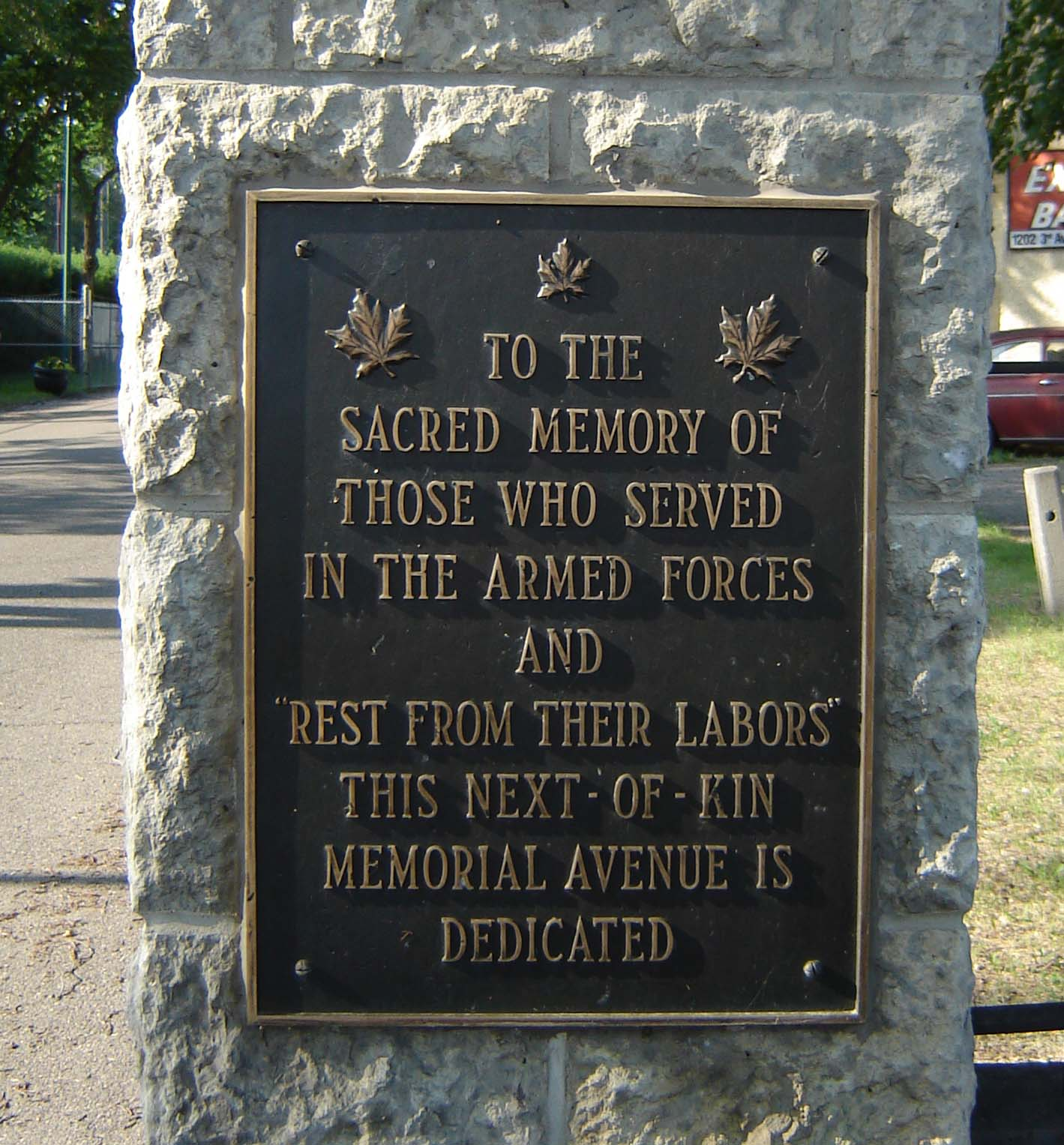 The Next-Of-Kin Memorial Avenue at Woodlawn Cemetery Saskatoon Saskatchewan Canada City of Saskatoon · Departments · Infrastructure Services · Parks